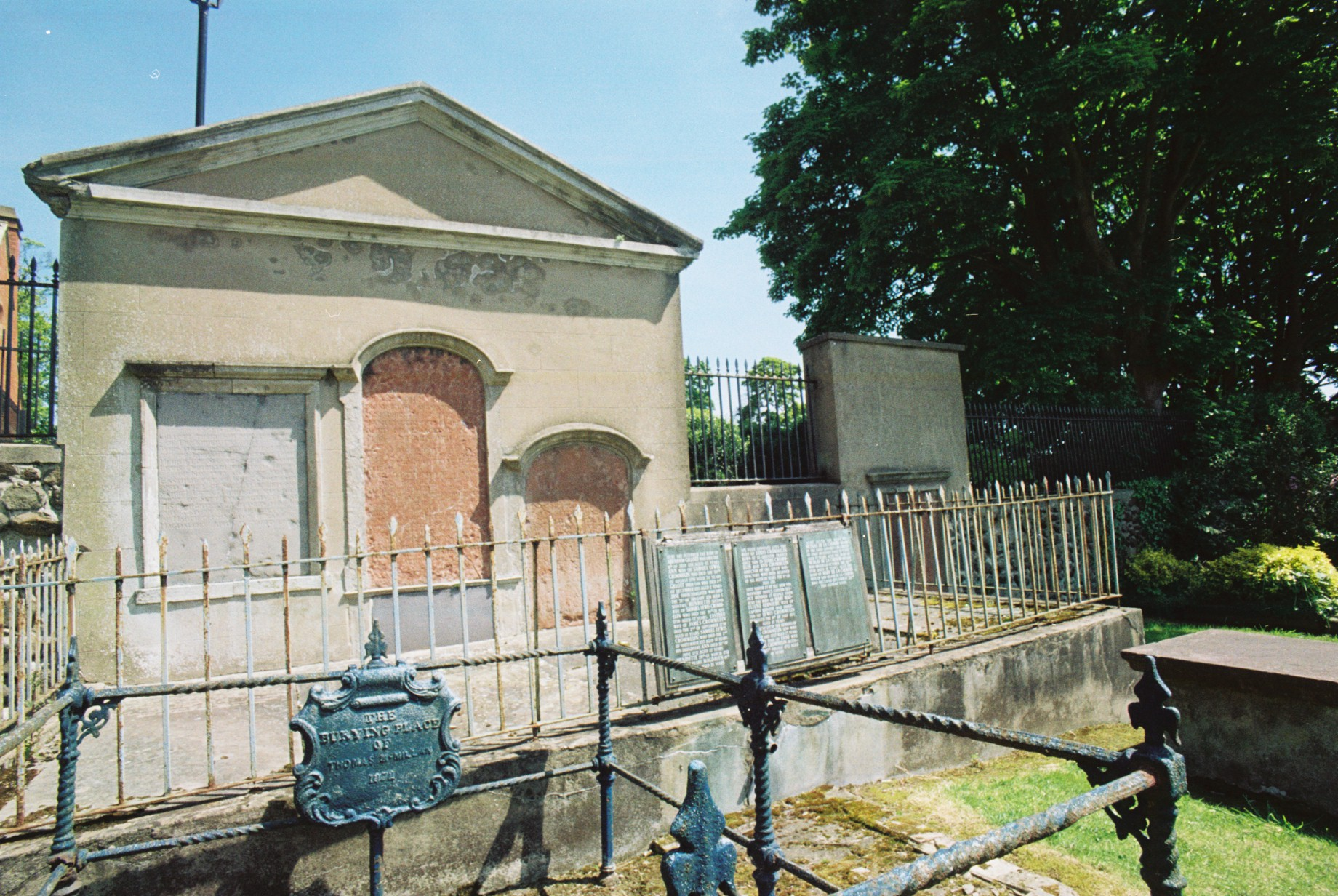 Crommelin Grave Lisburn Cathedral.Louis Crommelin [1] was a Huguenot and a major figure in the linen industry .Louis Crommelin died in 1727 and was buried here in Lisburn cathedral churchyard. This memorial to his son in Lisburn cathedral reads: "6 feet opposite are the body of Louis Crommelin, born at St Quentin in France, only son to Lewis Crommelin and Ann Crommelin, director of the linen manufactory, who died, beloved of all, aged 28 years, the 1st of July 1711 ". The weathered memorials are difficult to read and in 1964 a bronze plaque with the inscription was affixed to the railings . Several other members of the Crommelin family were buried here. Other Huguenots families interred in the churchyard include De La Cherois, Gillot and Berniere